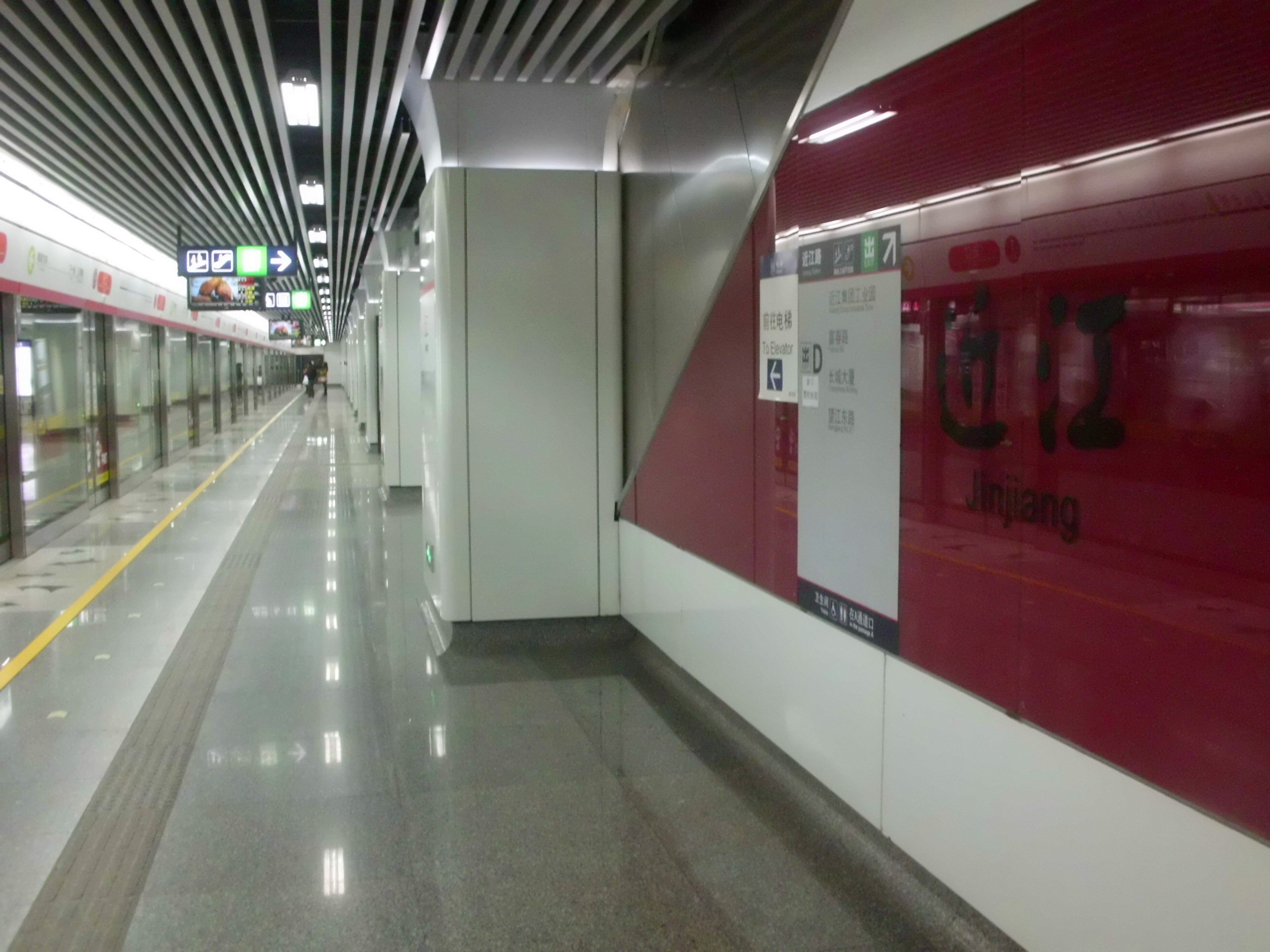 Jinjiang Station